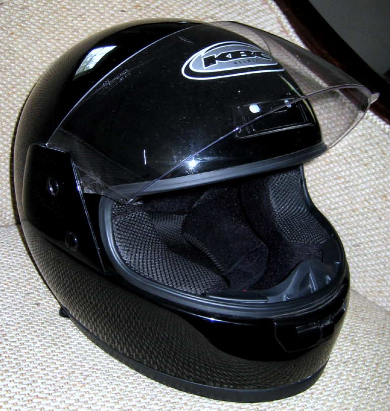 Full face motorcycle helmet.